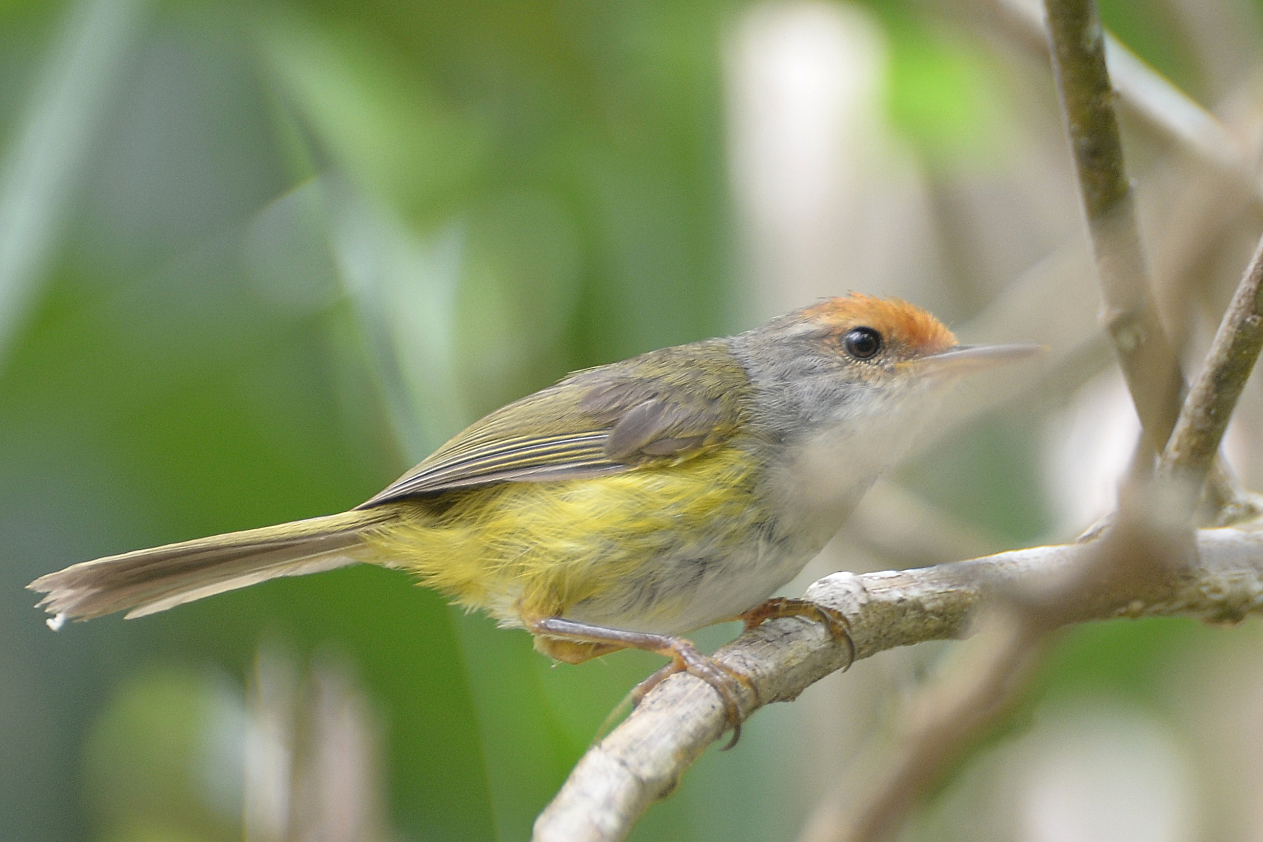 Mountain tailorbird (Orthotomus cuculatus riedeli) at Mount Mahawu, North SulawesiBahasa Indonesia: Cinenen gunung (Orthotomus cuculatus riedeli) di Gunung Mahawu, Sulawesi Utara